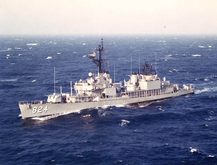 The U.S. Navy destroyer USS Basilone (DD-824) underway at sea, circa the later 1960s or early 1970s. This photograph may have been taken by USS America (CVA-66).